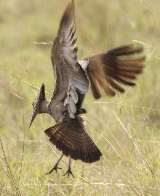 Hamerkop, Akagera National Park, Rwanda